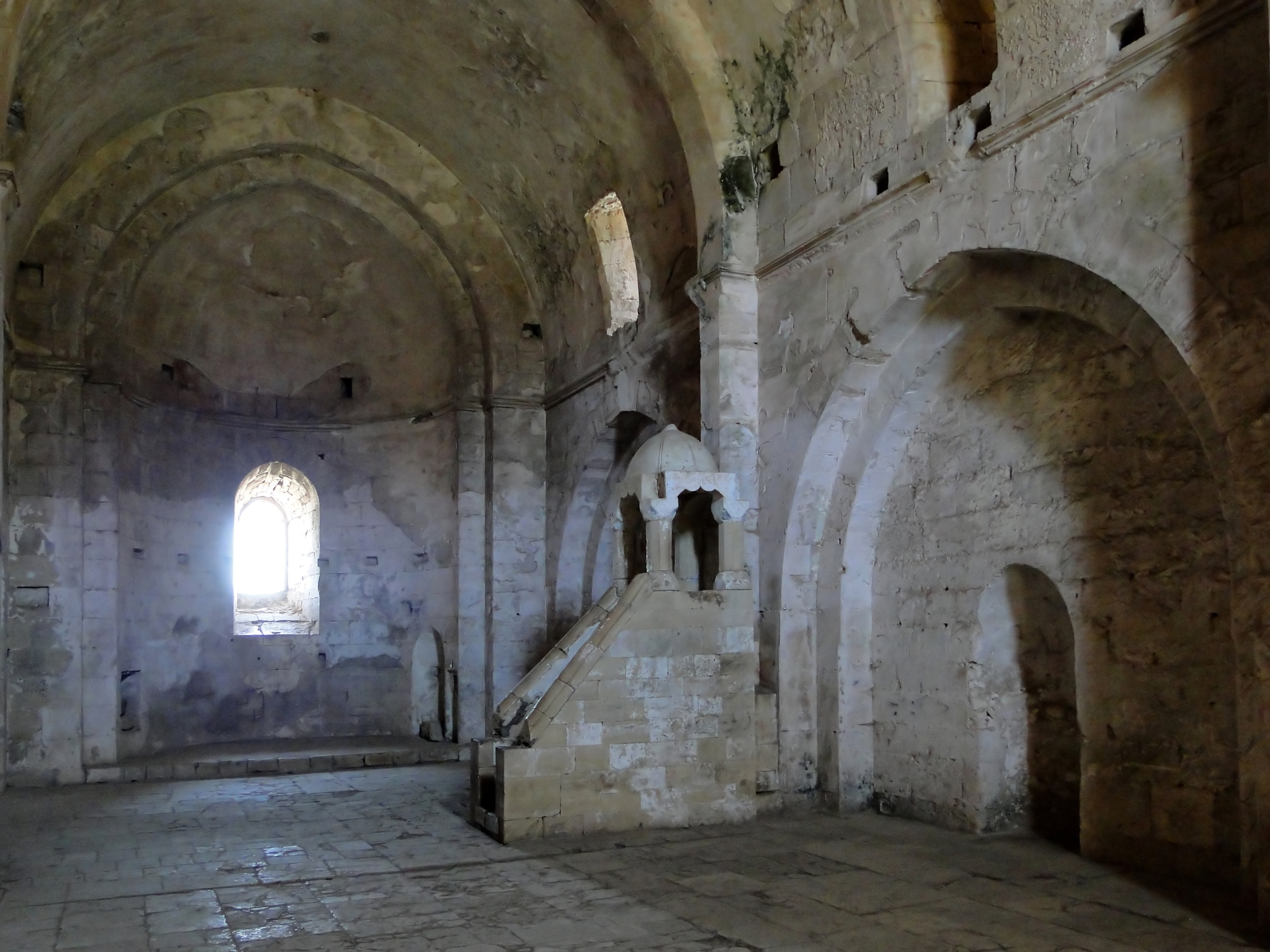 Chapel of the Krak des Chevaliers, Syria